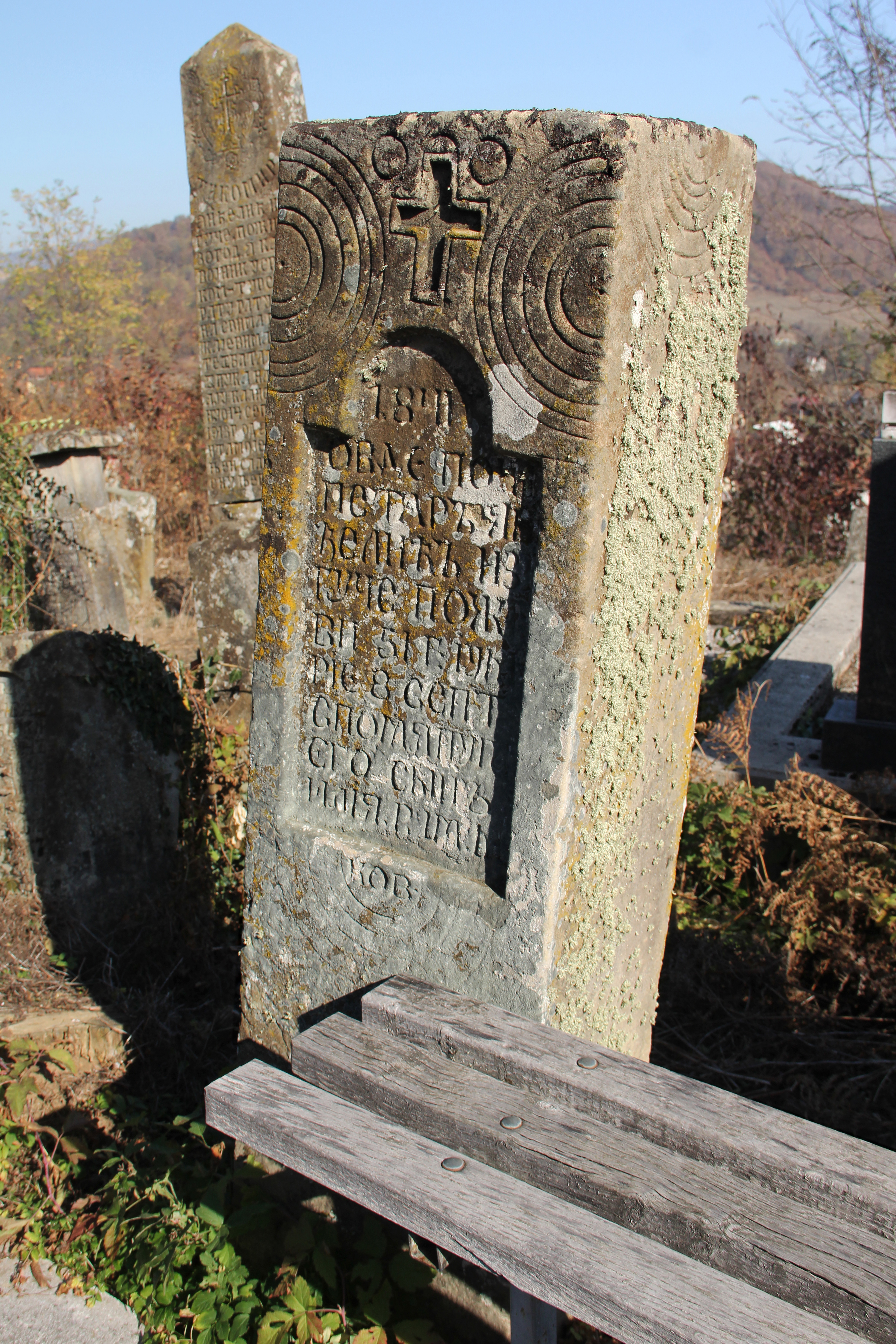 Old gravestones at the Andjelica cemetery in the village of Guca (the municipality of Lucani), Serbia.